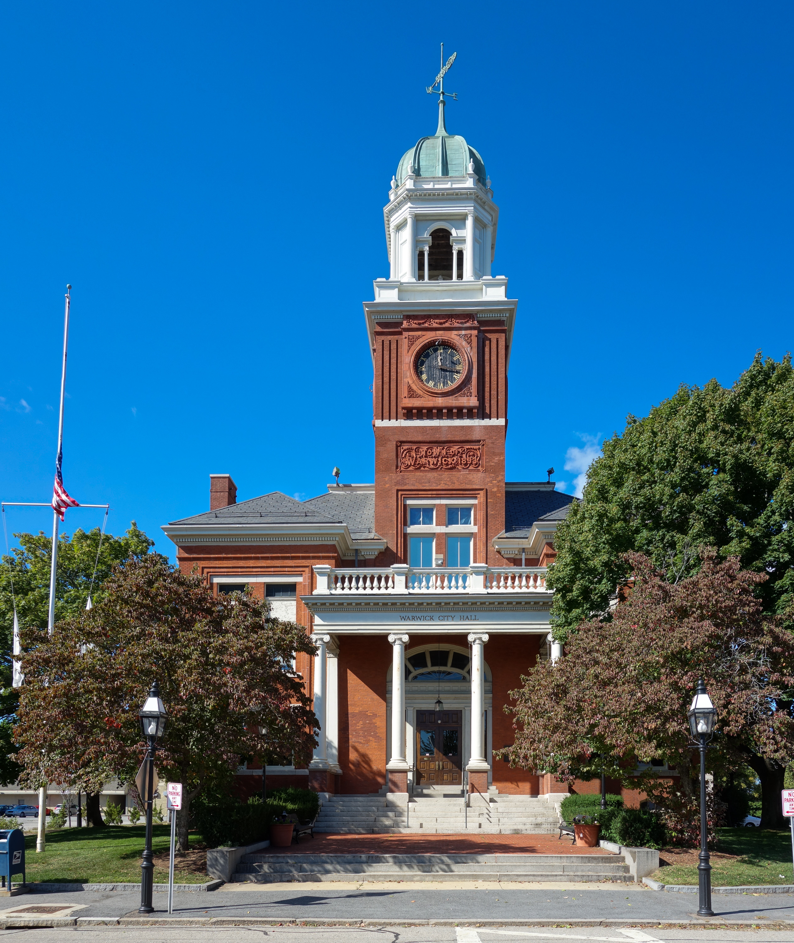 Warwick City Hall, Warwick, Rhode Island, Photographed in 2012.